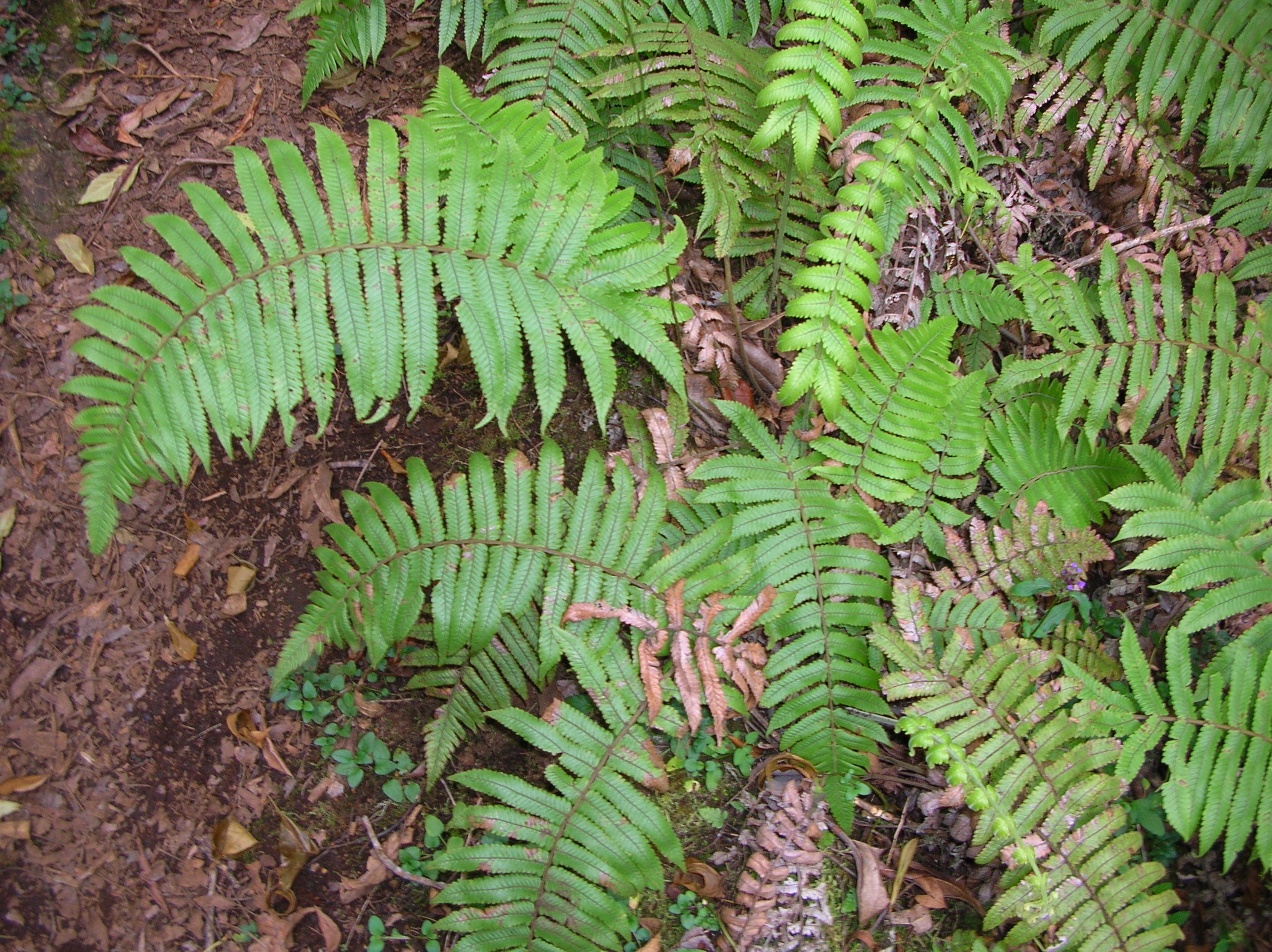 Pneumatopteris sandwicensis (Plum trail). Location: Maui, Polipoli